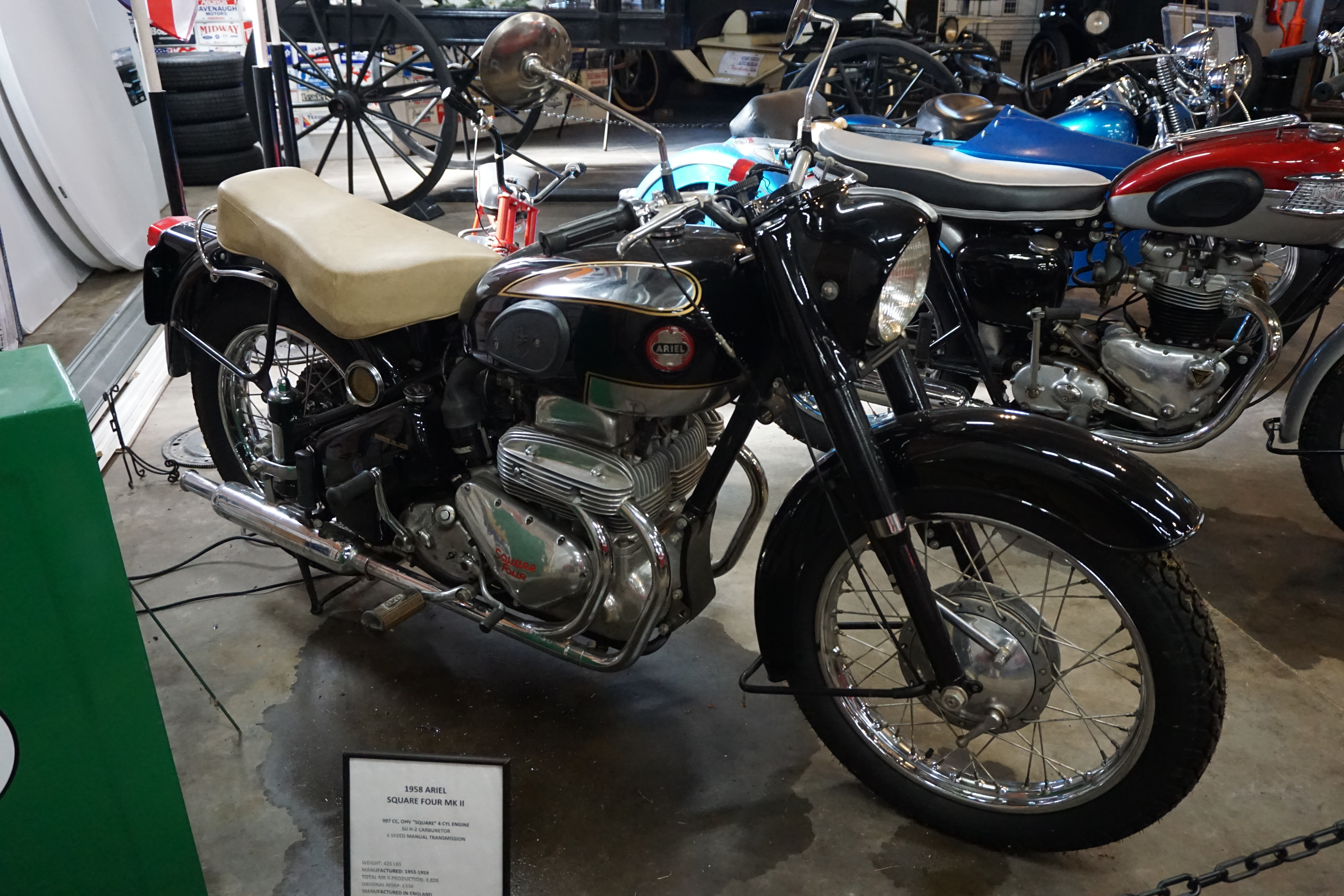 A 1958 Ariel Square Four Mk II at the Four States Auto Museum in Texarkana, Arkansas (United States).